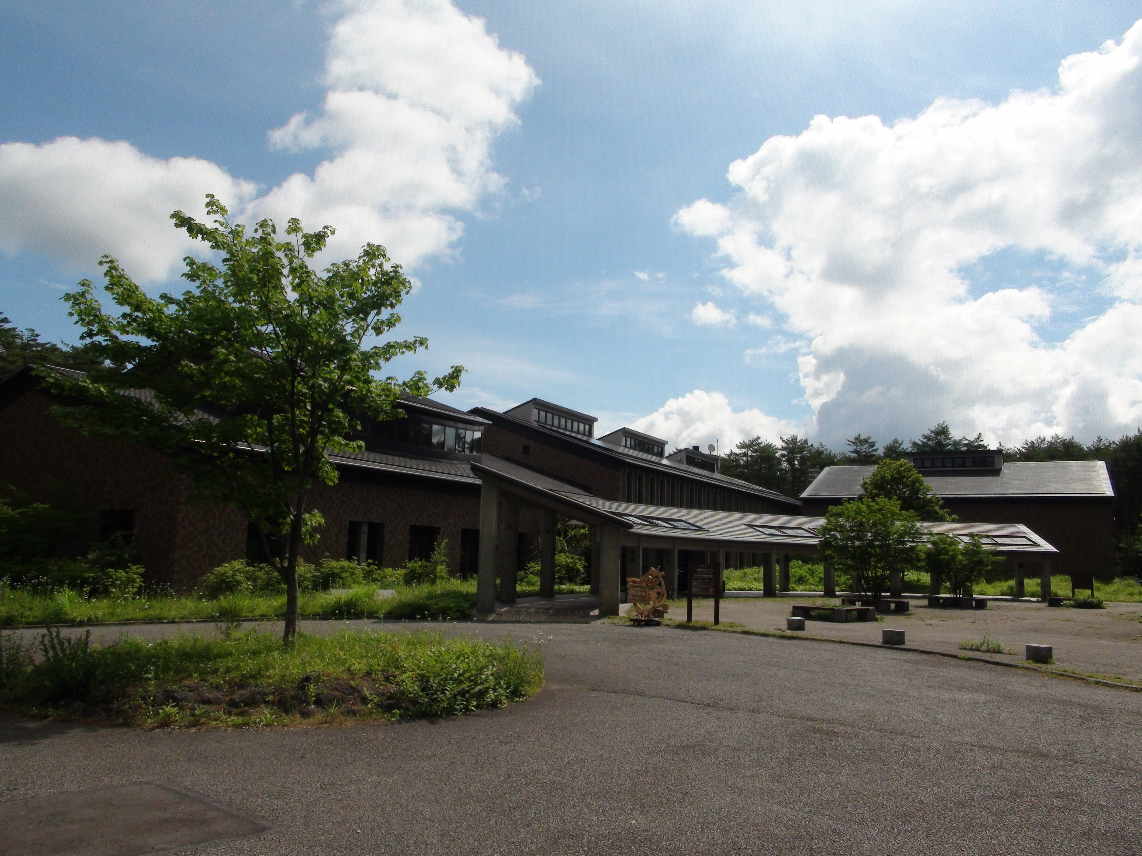 Biodiversity Center of Japan